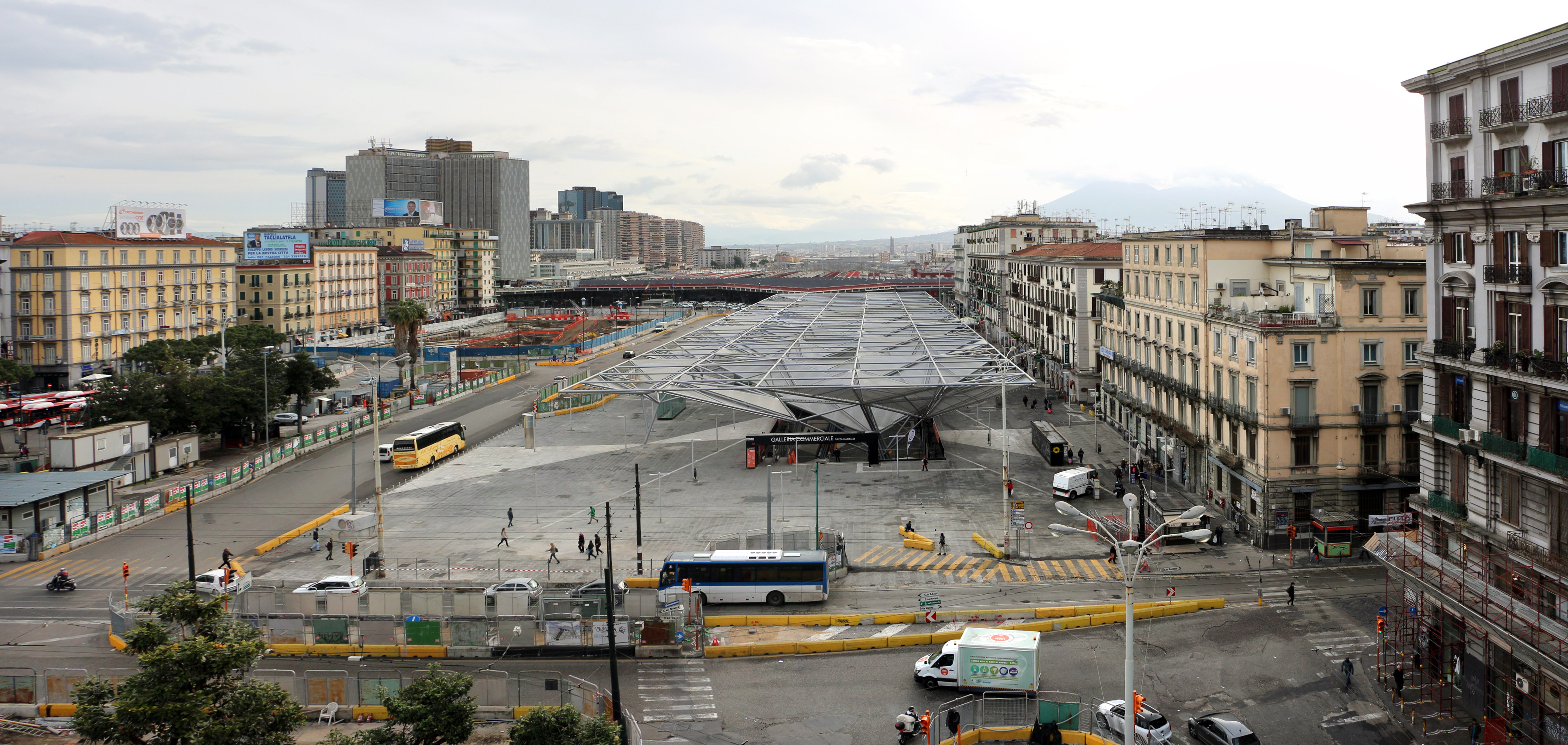 Churches in Naples